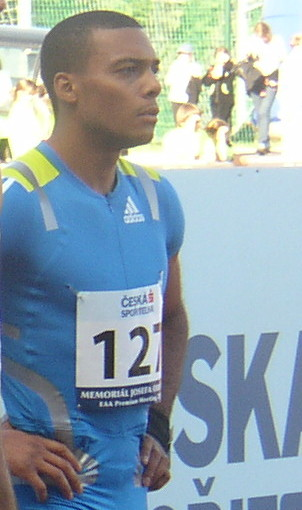 Athlete William Sharman of the United Kingdom preparing for his start in men's 110 m hurdles A race at 17th edition of the Josef Odložil Memorial (EAA Premium Meeting, Na Julisce Stadium, Prague, Czech Republic, 14 June 2010). Sharman ranked fifth in 13.45 s.